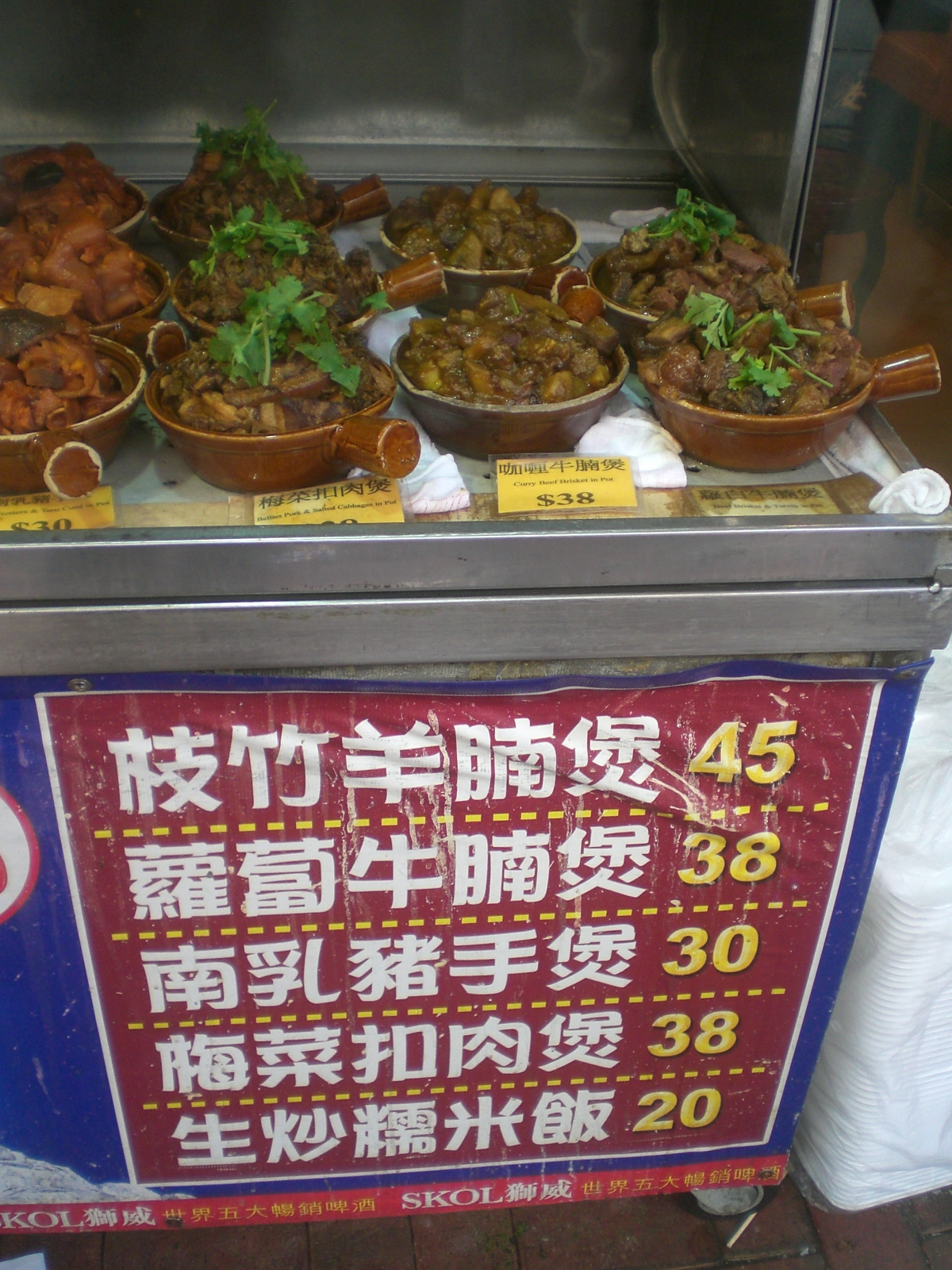 灣仔堅拿道 多多餐廳燒腊飯店